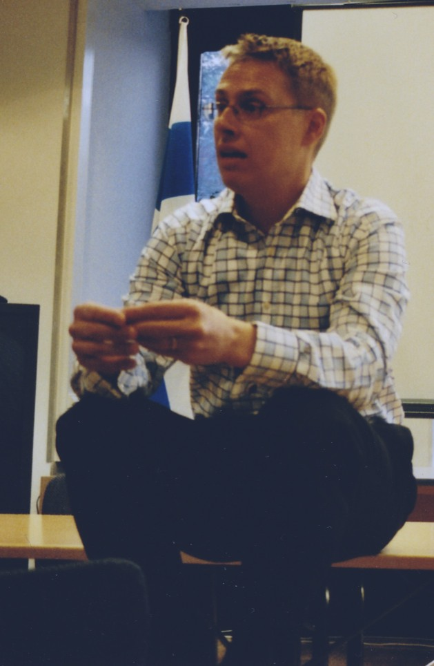 Alexander Stubb, expert at the Finnish delegation to the EU, talking to young Finnish Greens in Brussels 2004.